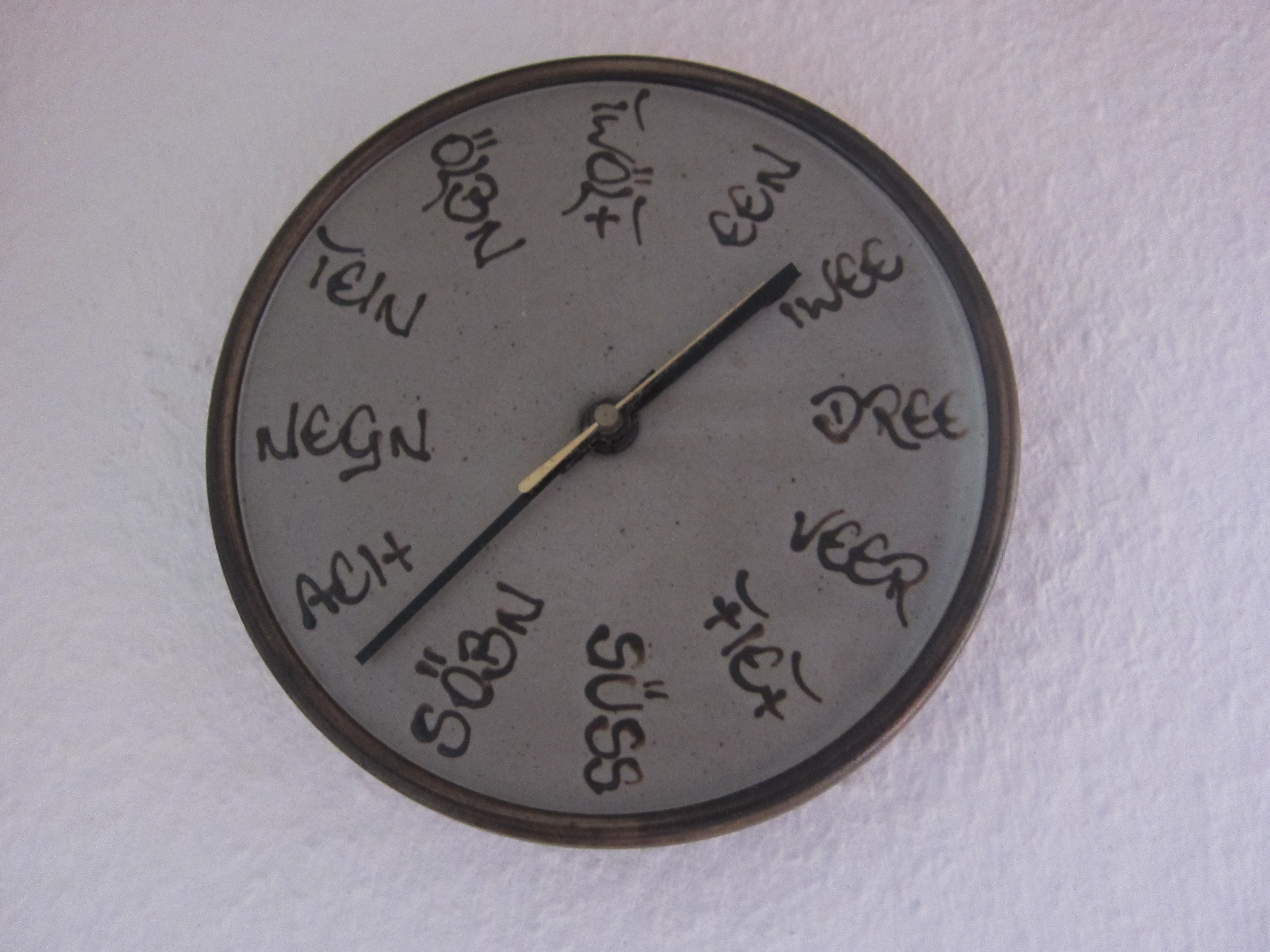 Low German clock in Ostenfeld, Nordfriesland